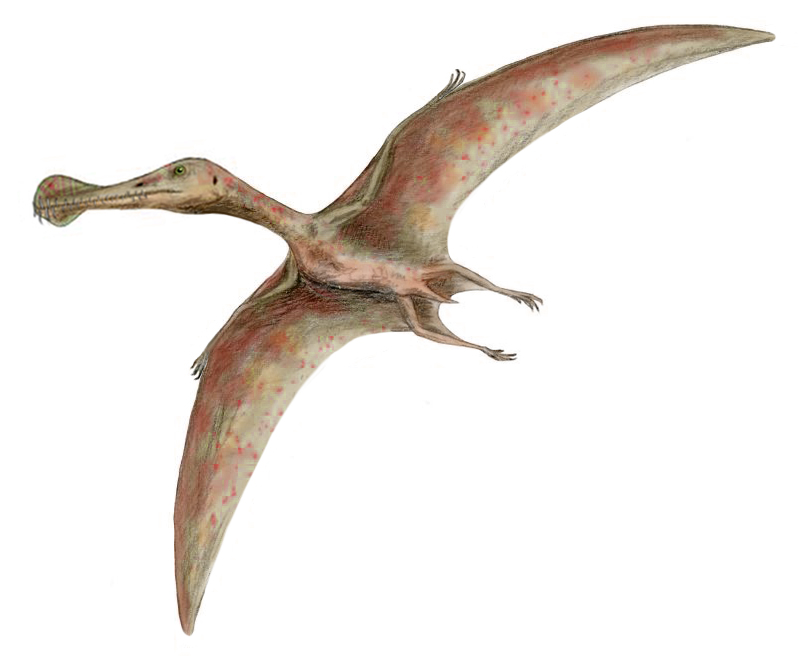 Ornithocheirus simus, a pterosaur from the Early Cretaceous of South America, pencil drawing